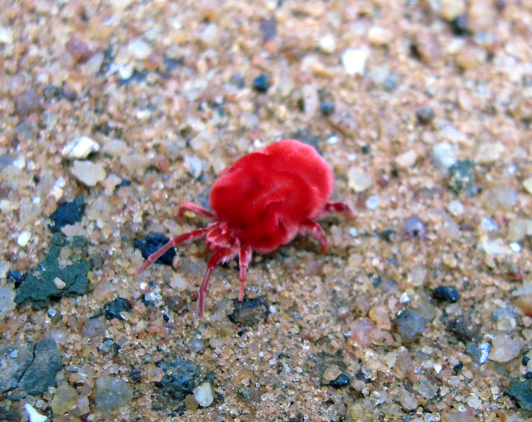 Velvet Mites are arachnids found in soil litter known for their bright red colours but are often mistaken for spiders.